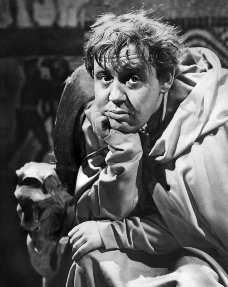 Publicity photograph of Charles Laughton in the unfinished 1937 film production, I, Claudius